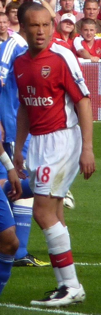 Tweedy preparing for a corner.